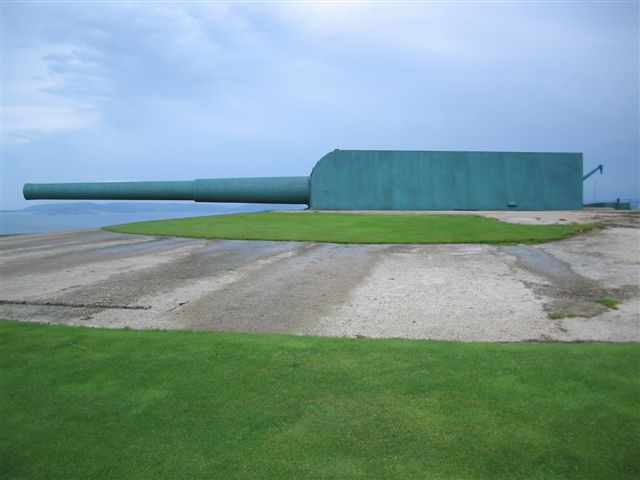 Vickers gun. 1926. Caliber: 381 mm Total length: 17.671 m. Initial velocity: 762 m/s. In Monte San Pedro, A Coruña, Galicia, Spain.